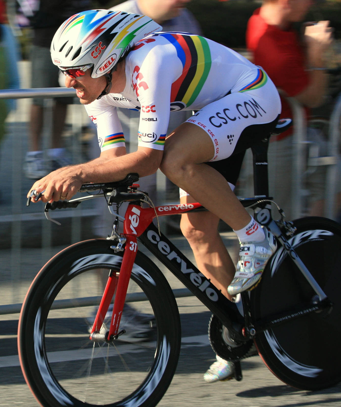 Fabian Cancellara at the Prologue of the Tour of California in Palo Alto